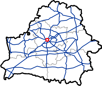 Map of main automobile roads in Belarus with M9 motorway (MKAD) selected